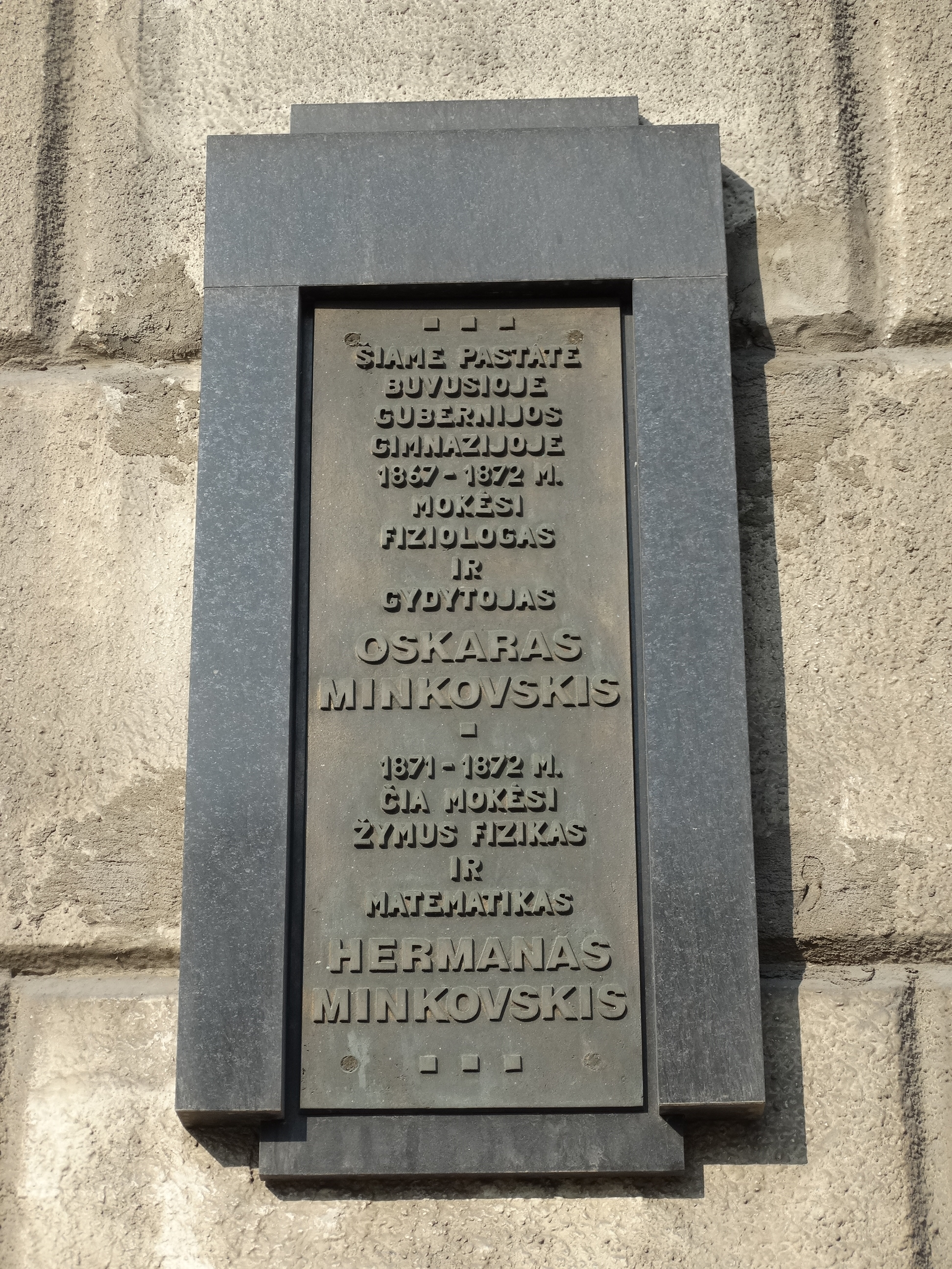 Memorial plaque, Oskar and Hermann Minkowski, Kaunas